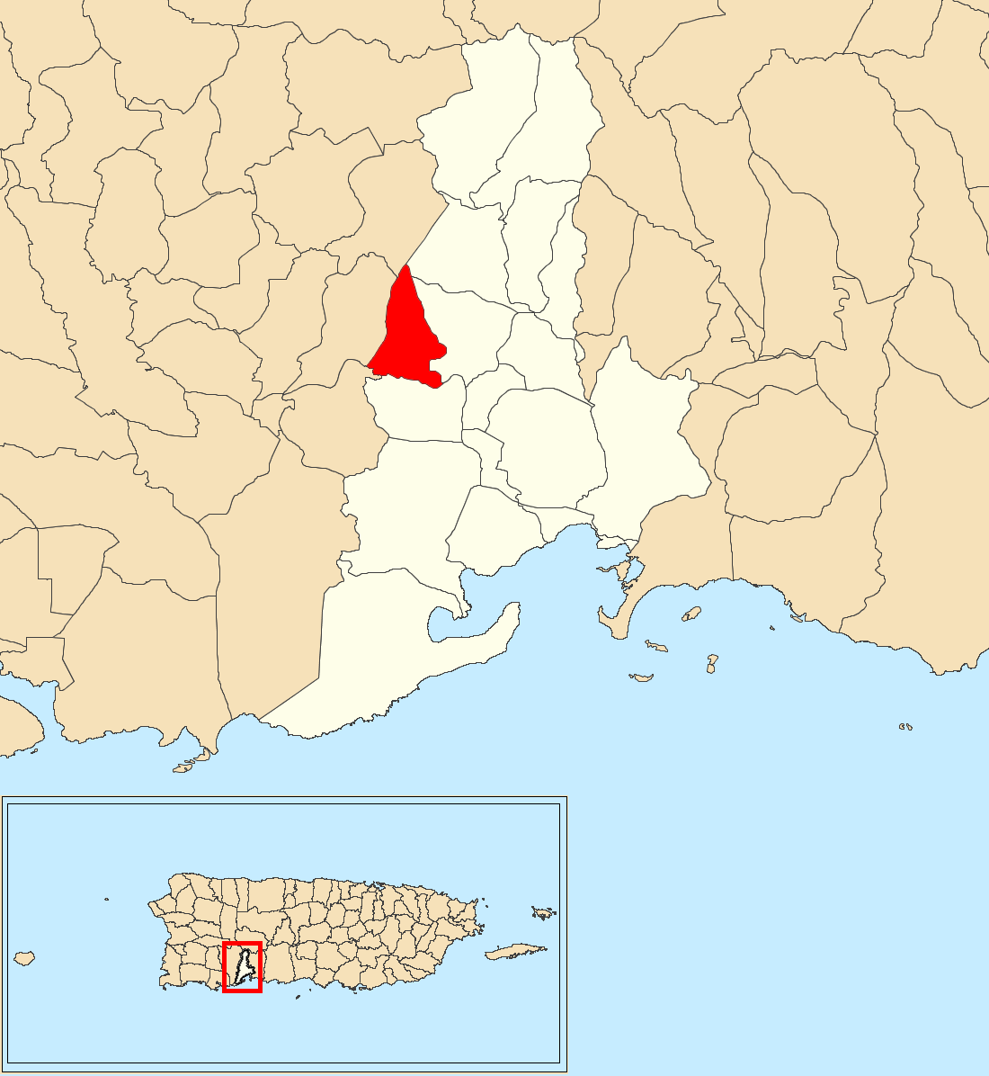 Consejo, Guayanilla, Puerto Rico locator map